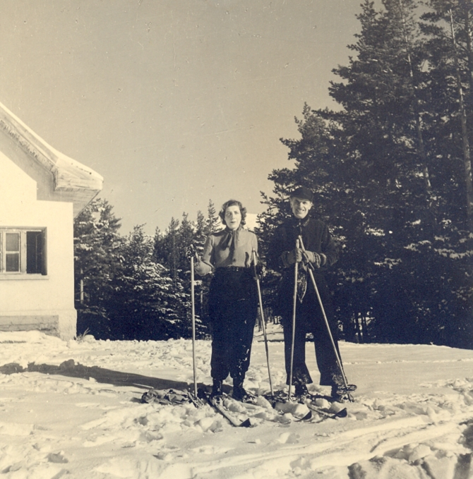 Bulgarian writer Anna Kamenova and her husband, the jurist Petko Staynov. Chamkoria, 1934